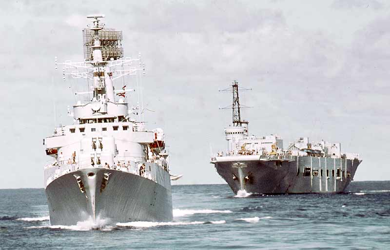 The Royal Navy destroyer HMS Glamorgan (D19) and the repair ship HMS Triumph (A108) underway, in 1972.